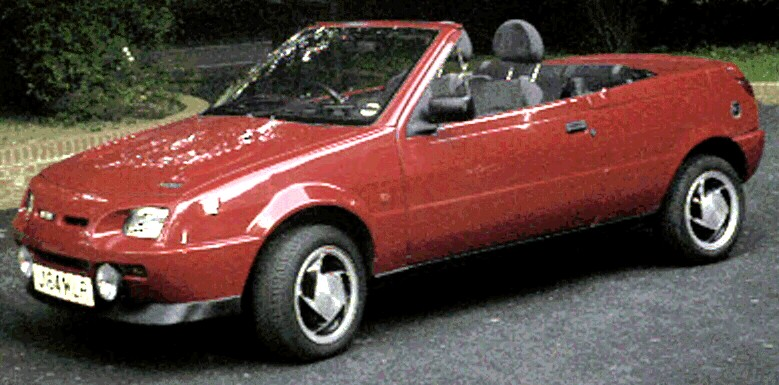 Hacker Maroc S2. Soft-top convertible kit car conversion of a Ford Fiesta. Designed and assembled by Tim Dutton (founder of Dutton Cars). it is claimed that up to two dozen were produced. This instance no longer exists, having been converted into a yet different car.